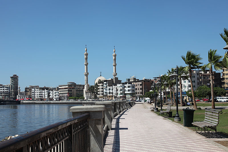 Corniche, Dumyat, Egypt